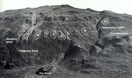 Aerial View of Mauna Kea from the Saddle Road side. Areas outlined in white are terminal moraines (m) and glacial till (w).